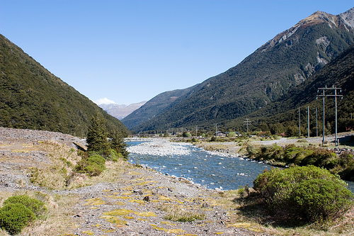 Bealey River flowing through Arthur's Pass, looking south